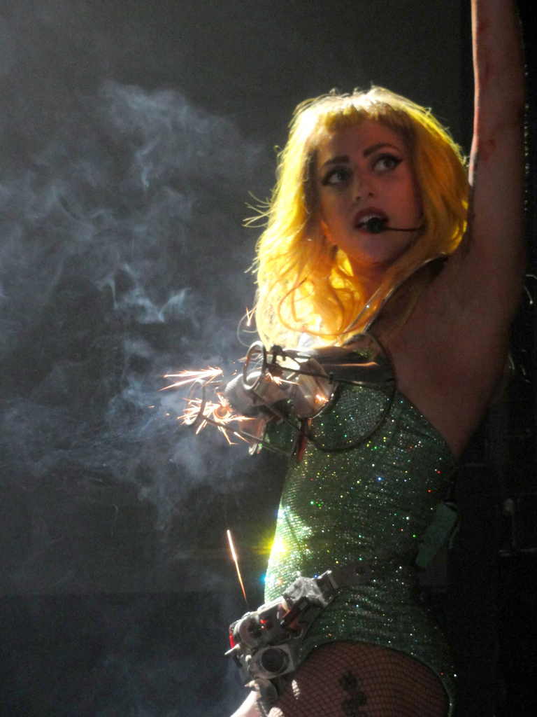 Lady Gaga performing "Paparazzi" on The Monster Ball Tour.